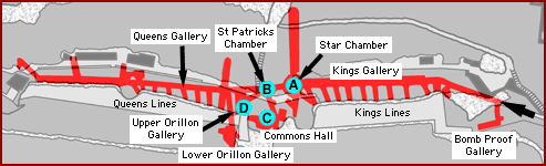 Northern Defences below Surface These images are from which is a cc by sa website. A Star Chamber B St Patrick's Chamber C Commons Hall D Upper Orillon Gallery